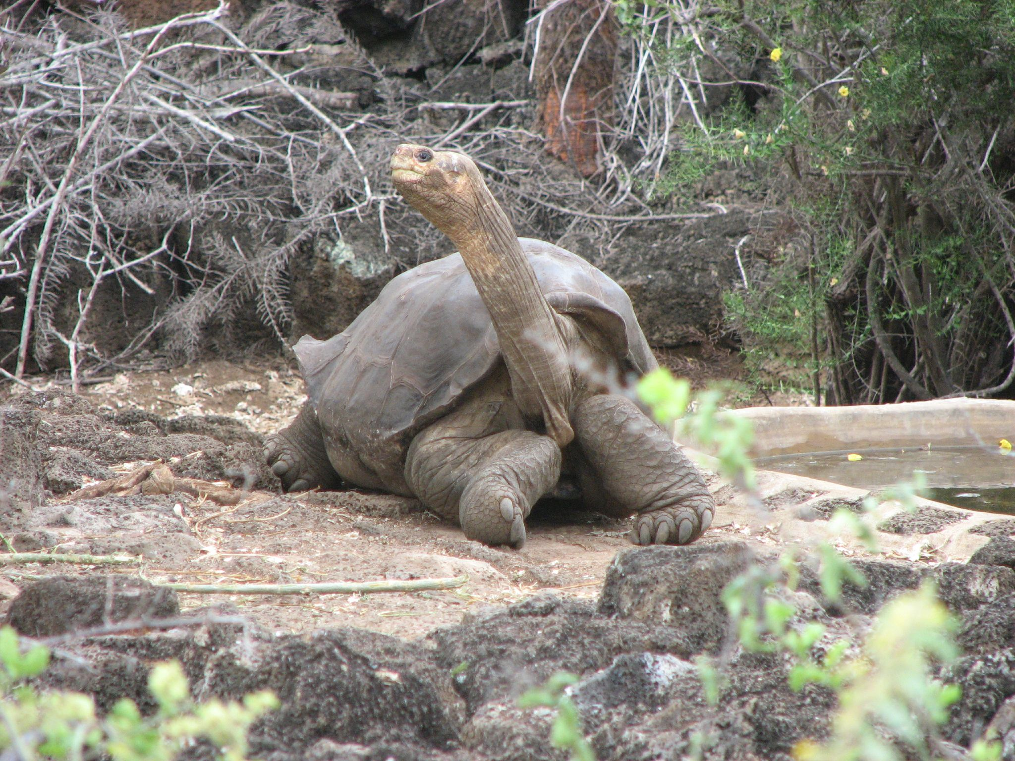 December 10, 2006: I'm pretty sure this is Lonesome George, so named because he is the last remaining tortoise of his species